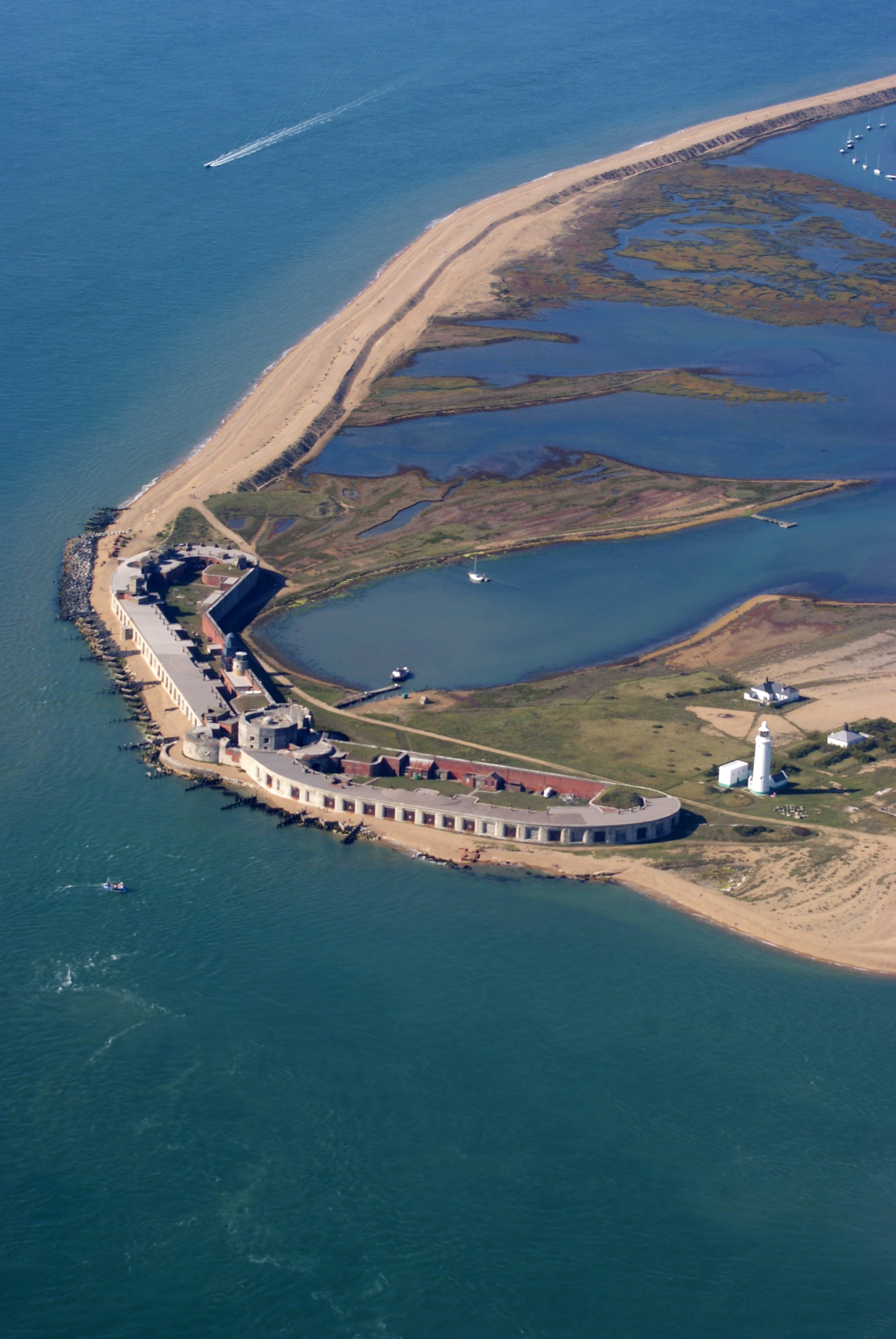 Hurst Castle, near Milford on Sea, Hampshire, England.